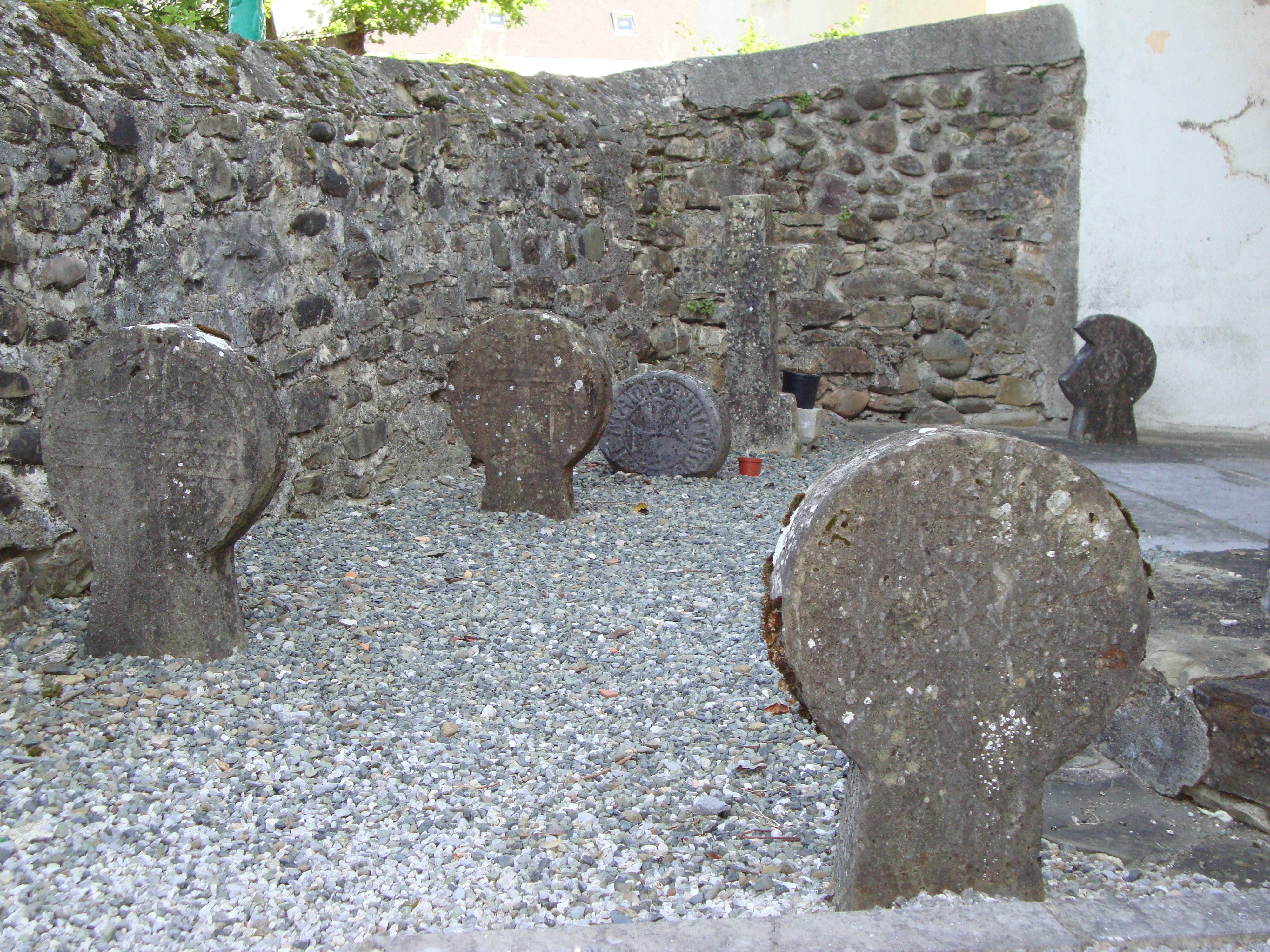 Libarrenx (Gotein-Libarrenx, Pyr-Atl, Fr) basque steles